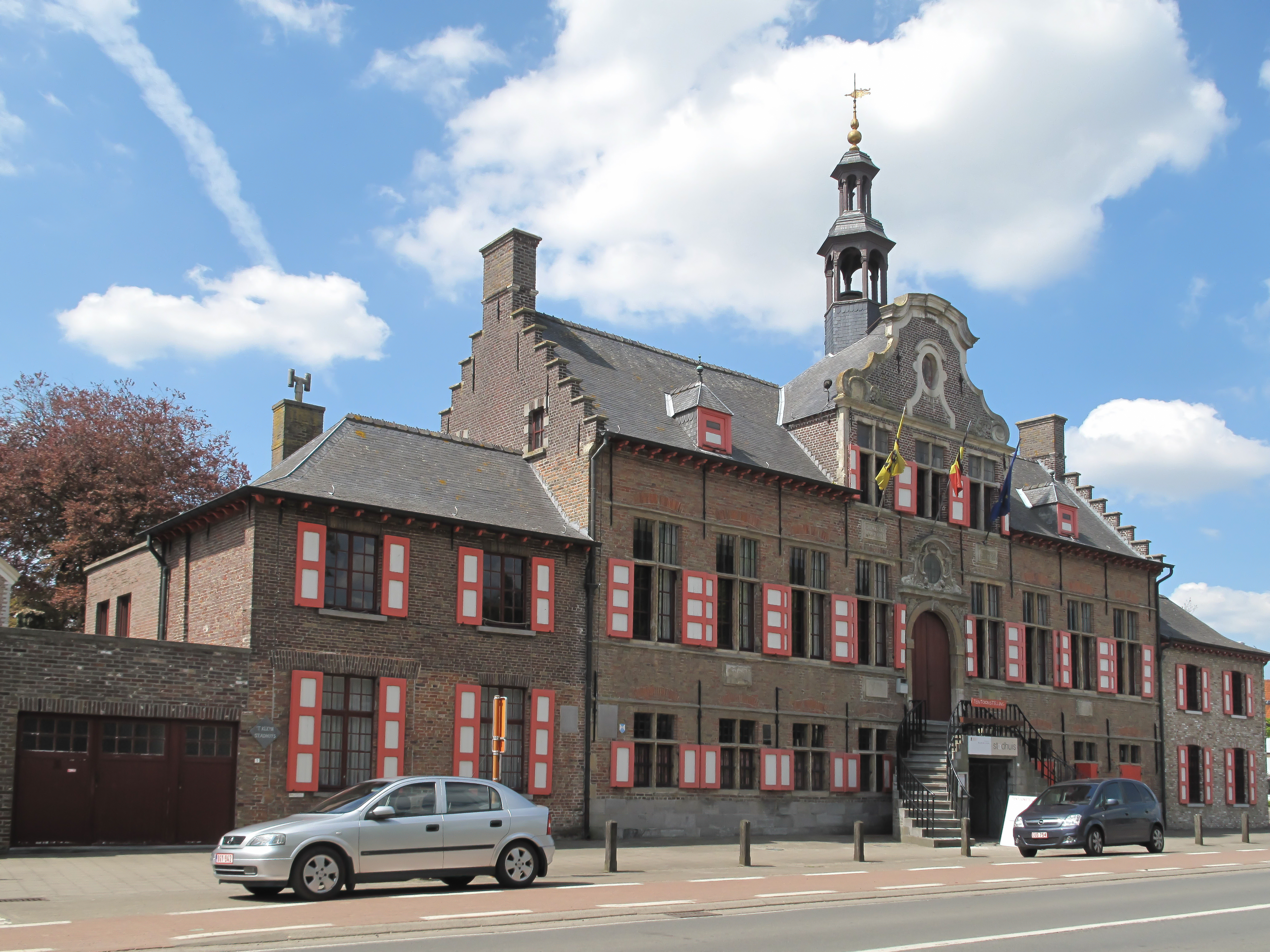 Kaprijke, townhall